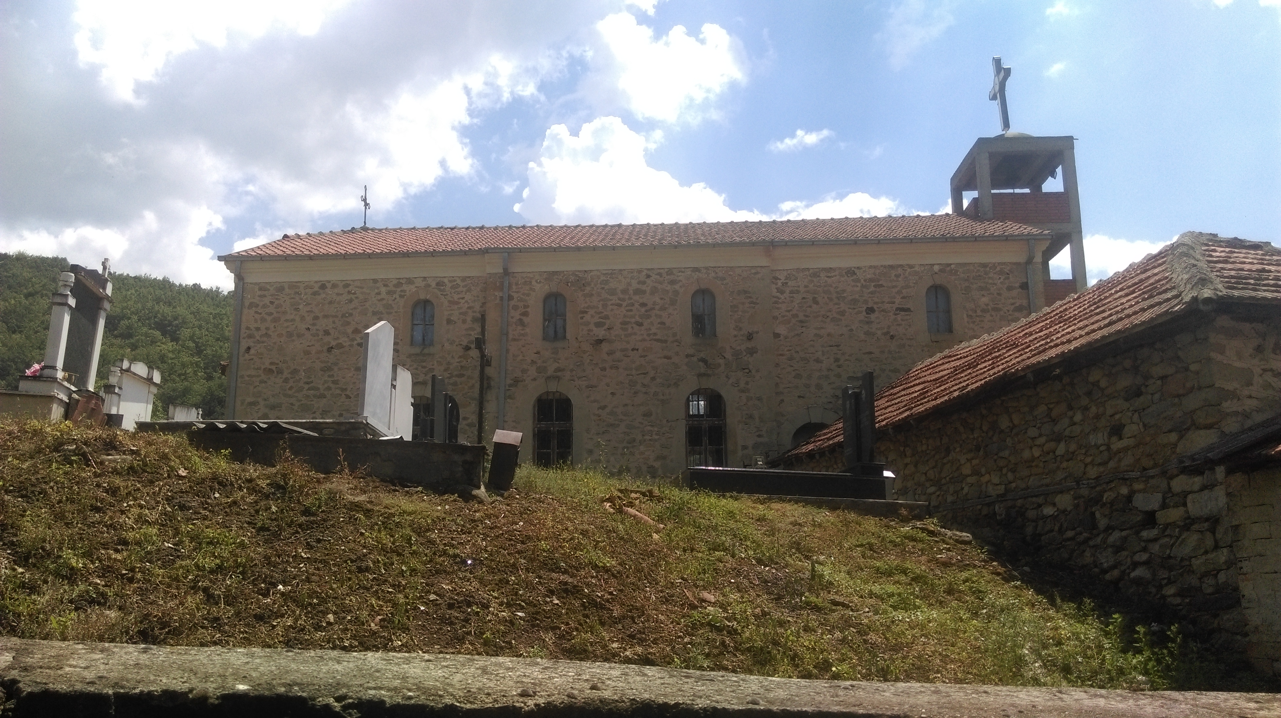 St. Michael the Archangel Church